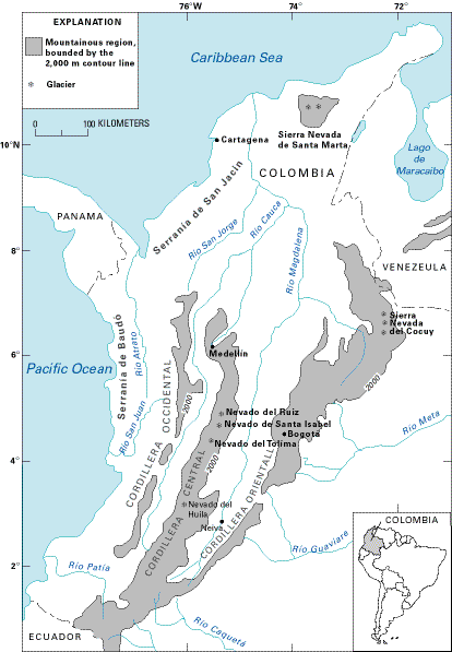 Location of glaciers in Colombia. Mountains are delineated by the 2,000-m contour line (heavy dark line)